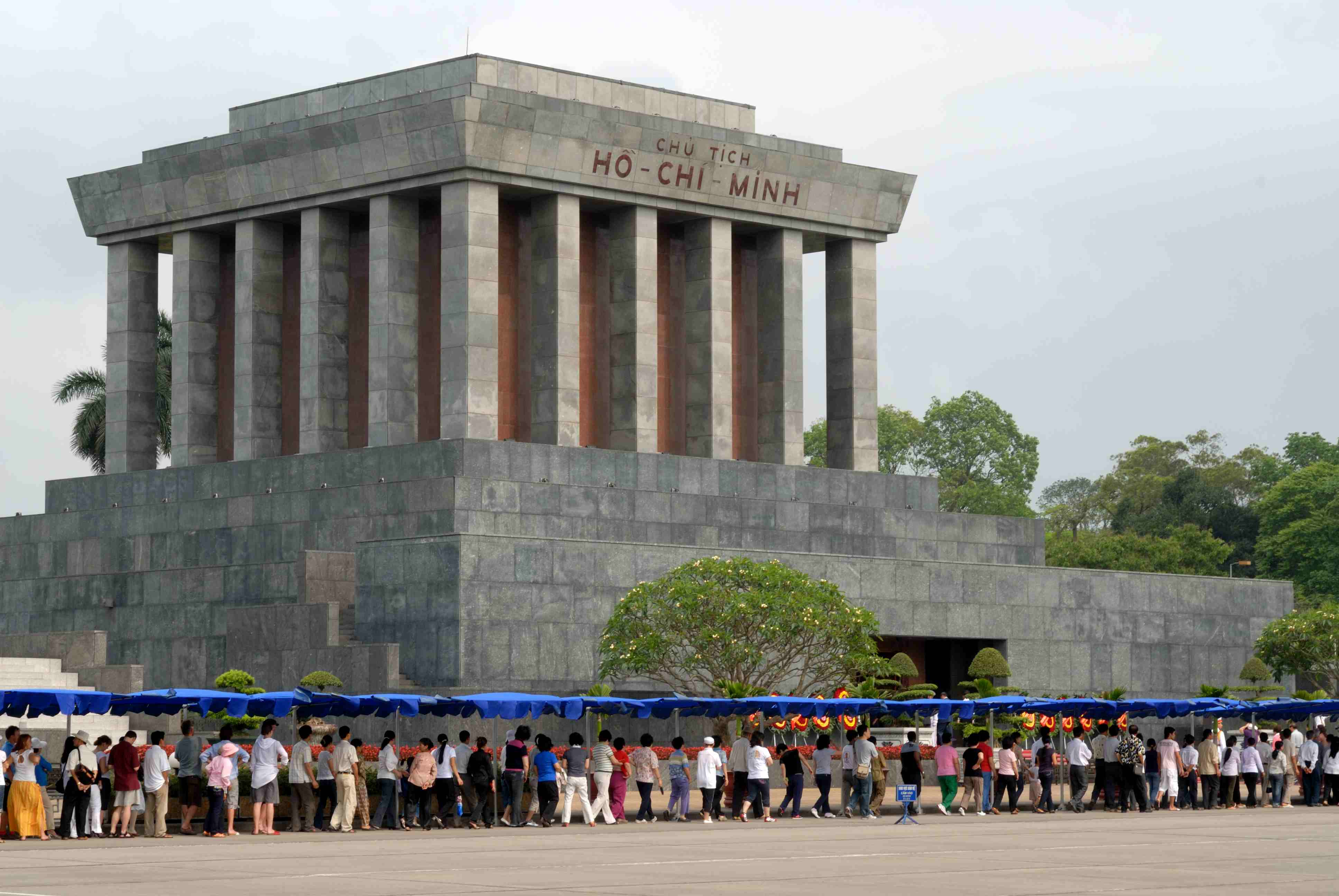 Mausoleum of Ho Chi Minh, the man after whom saigon is today named. Hanoi, Vietnam